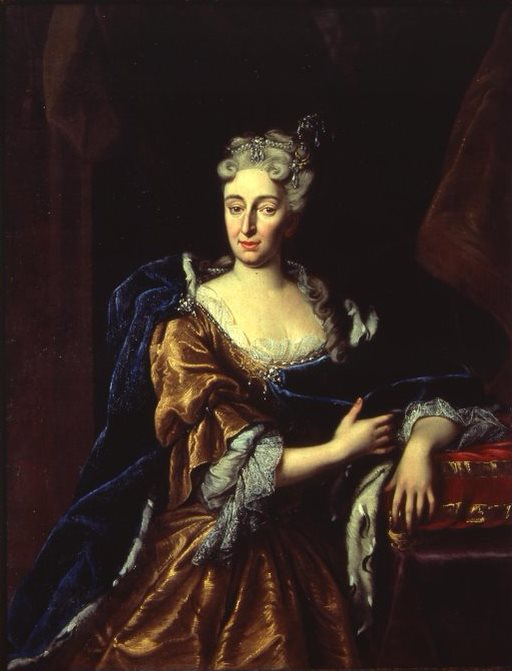 Violante Beatrice of Bavaria (1673-1731), grand princess of Tuscany